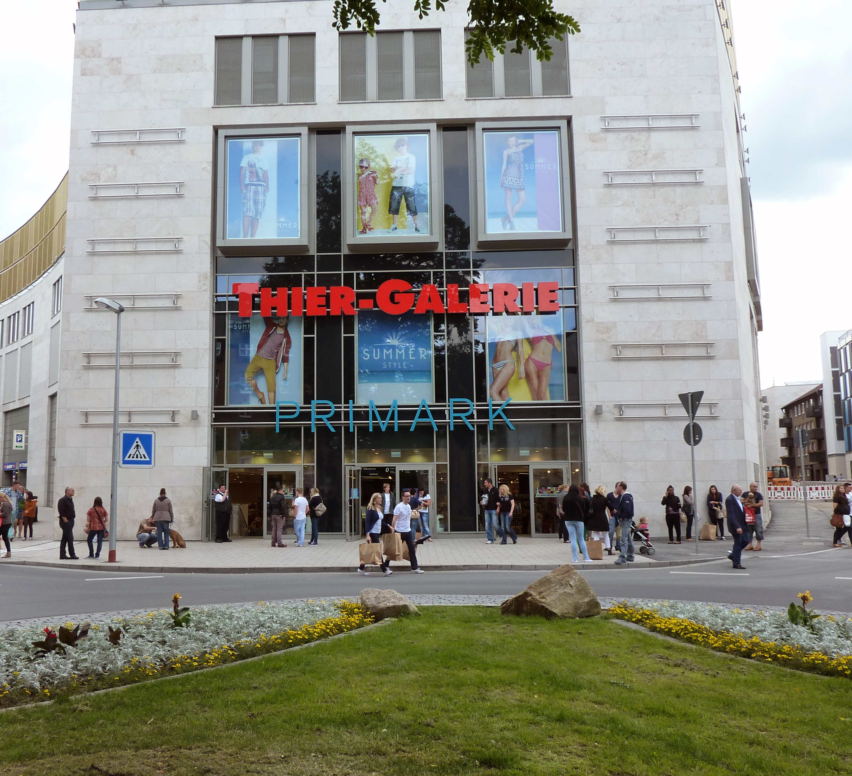 Primark Dortmund Thier Galerie